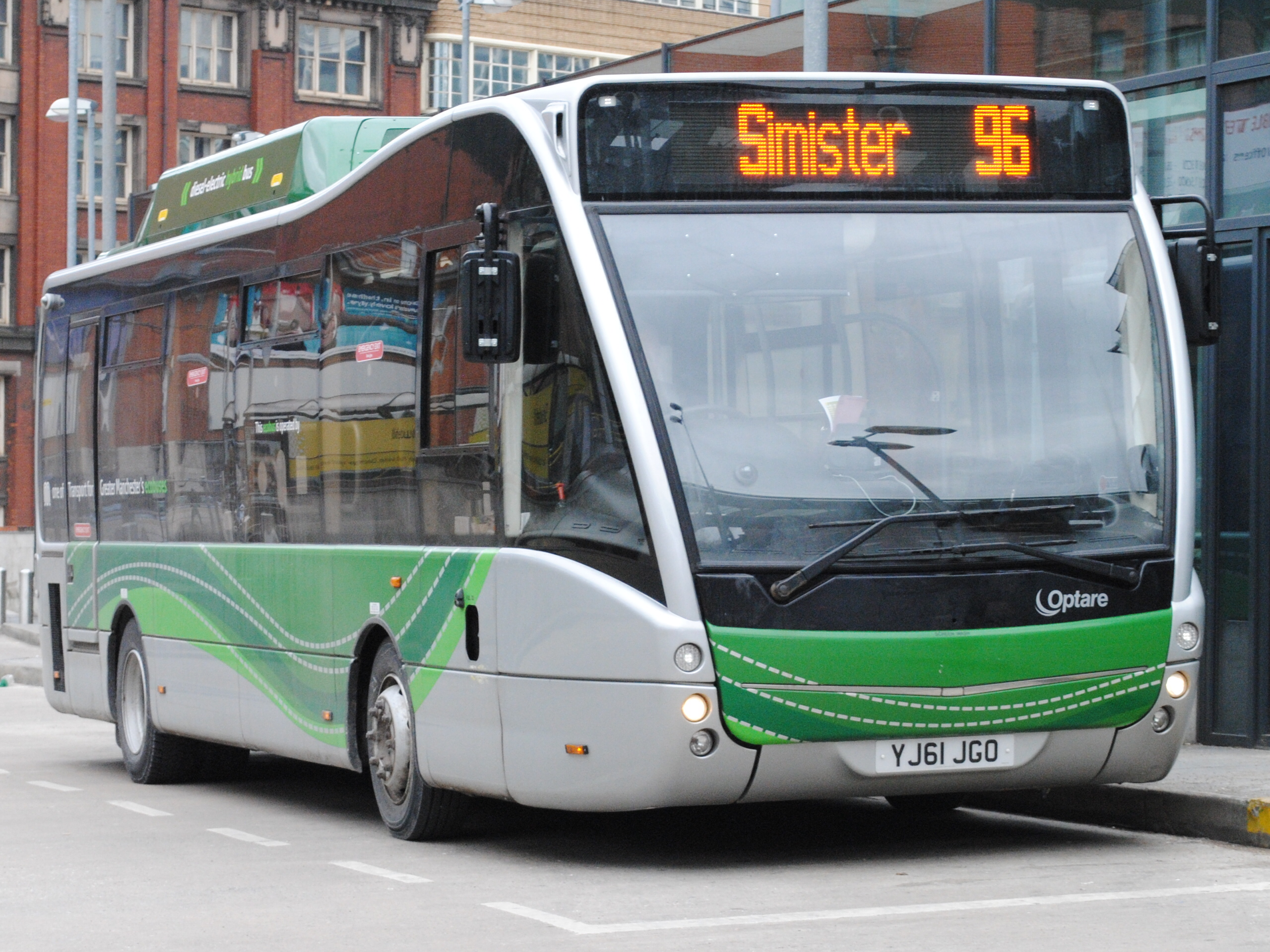 Optare Versa V890 Hybrid. new to First Manchester 49123